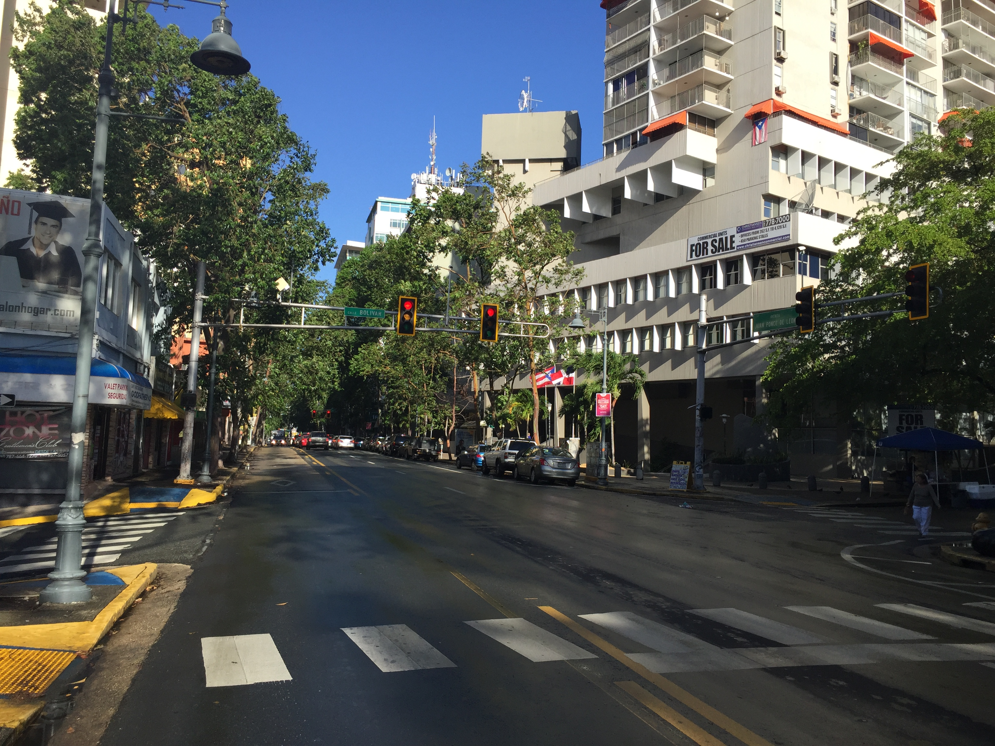 Ave. Ponce de León (stop #23) in San Juan, Puerto Rico